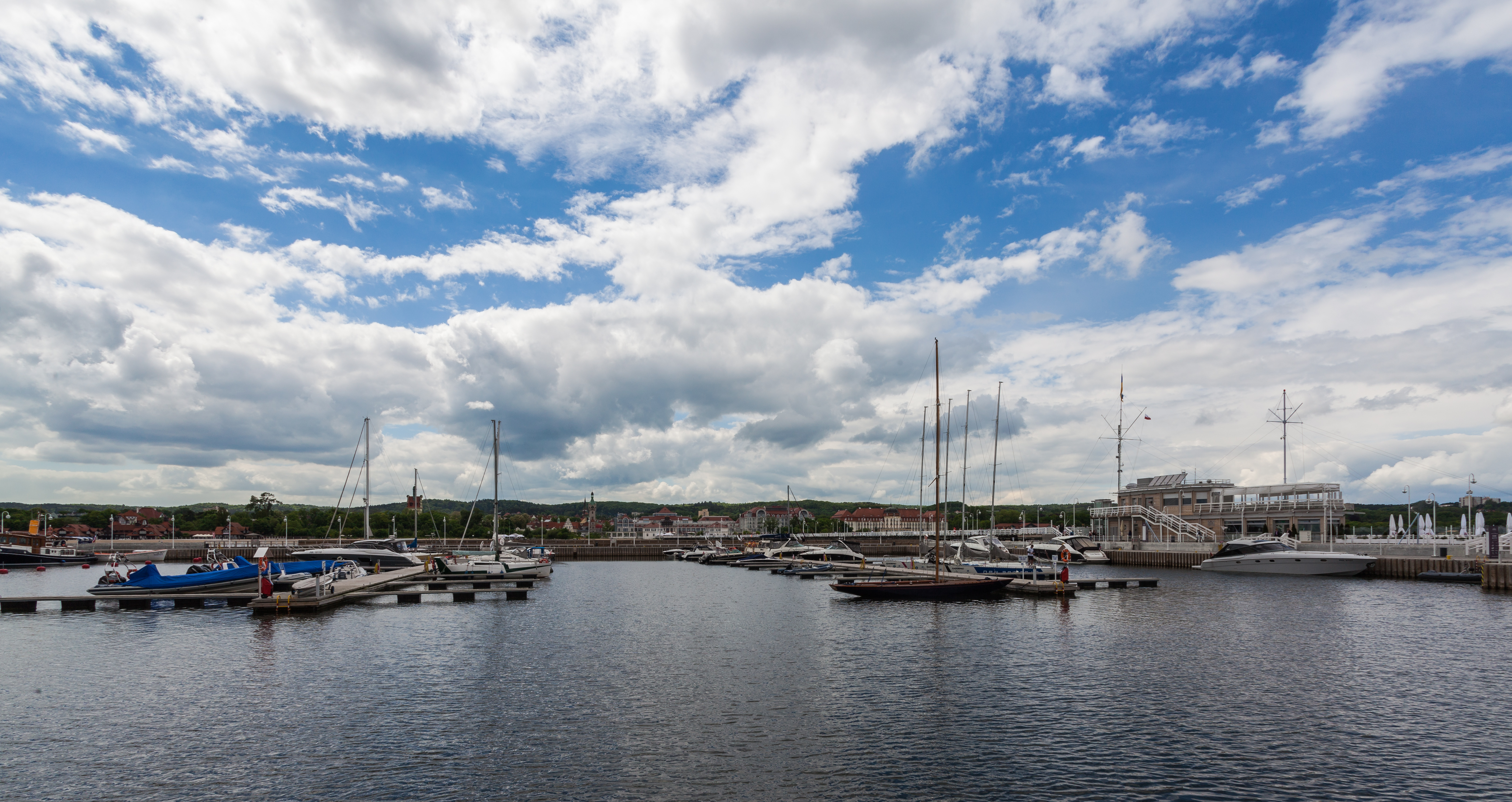 Promenade pier of Sopot, Poland